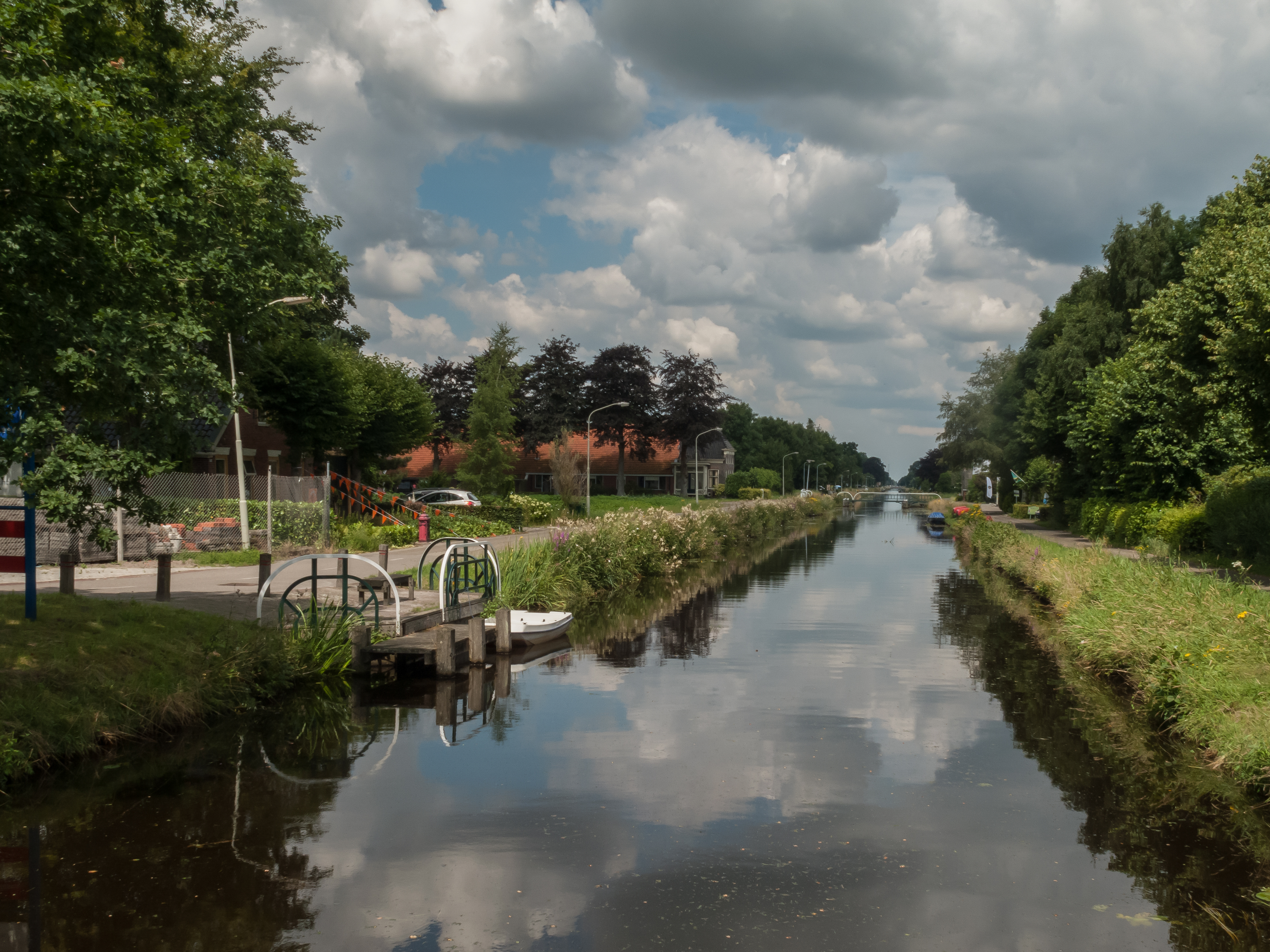 Kiel-Windeweer, view to the hamlet from de Bovensteklap